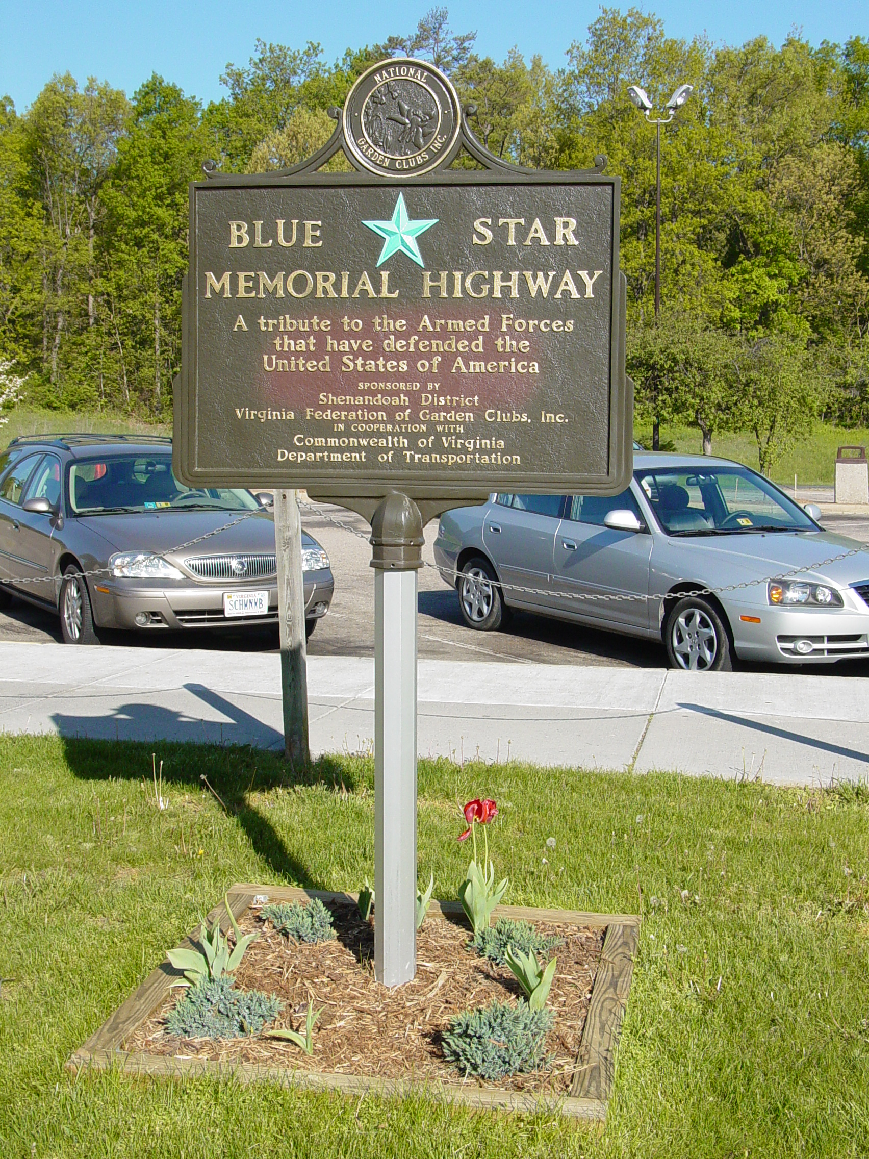 Blue Star Memorial Highway marker at a rest area at milepost 262 on Interstate 81 northbound, near New Market, Virginia.